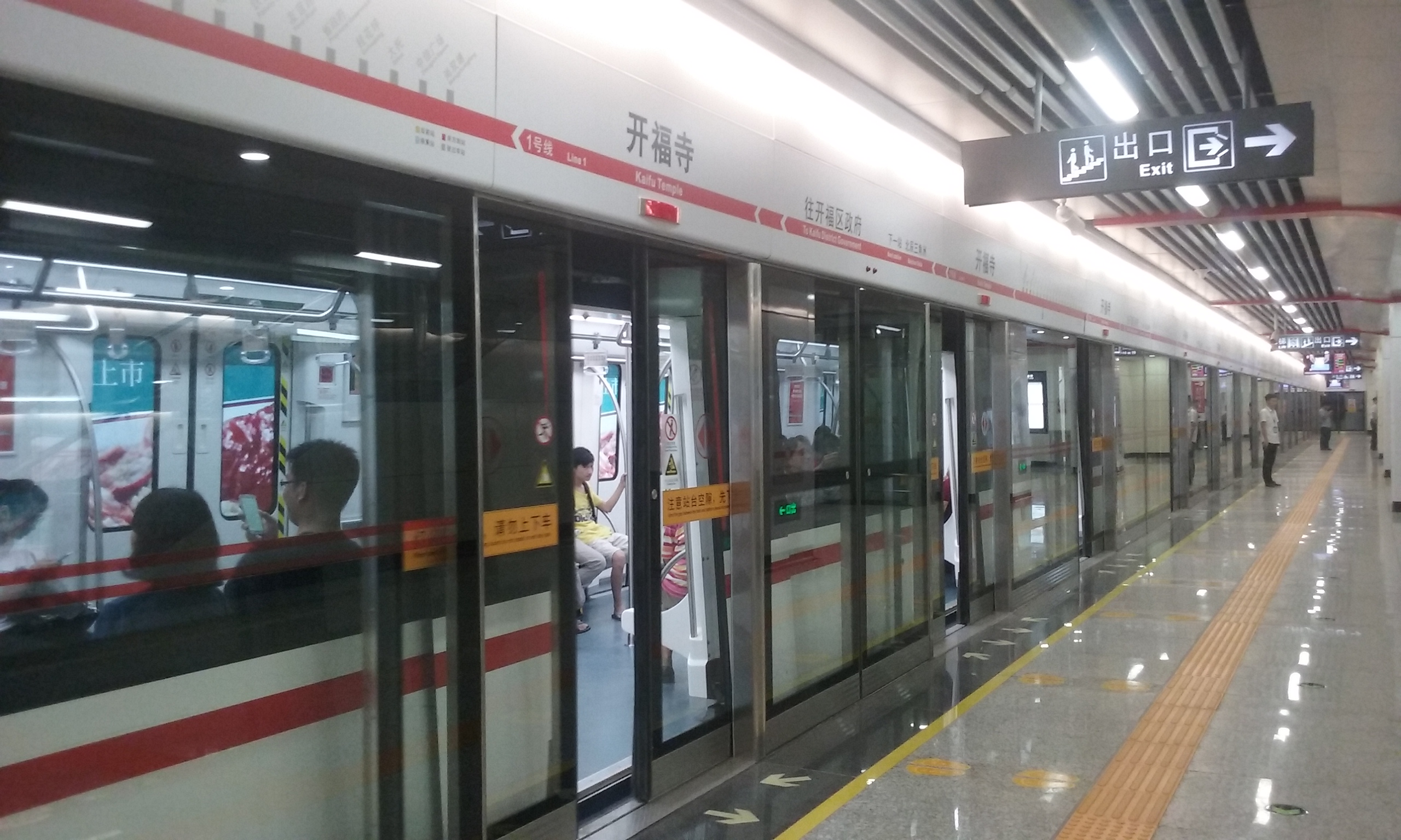 Northbound train of Line 1 in Kaifu Temple Station